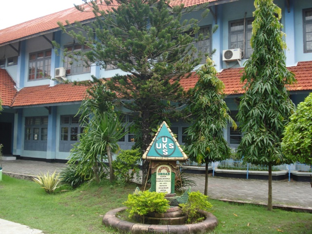 A view in front of SMA Negeri 1 Sidoarjo, Jawa Timur, Indonesia